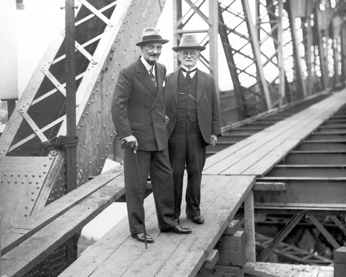 Inspection of the Story Bridge construction by His Excellency, the State Governor Sir Leslie Orme Wilson and Dr John Bradfield, 7 July 1938